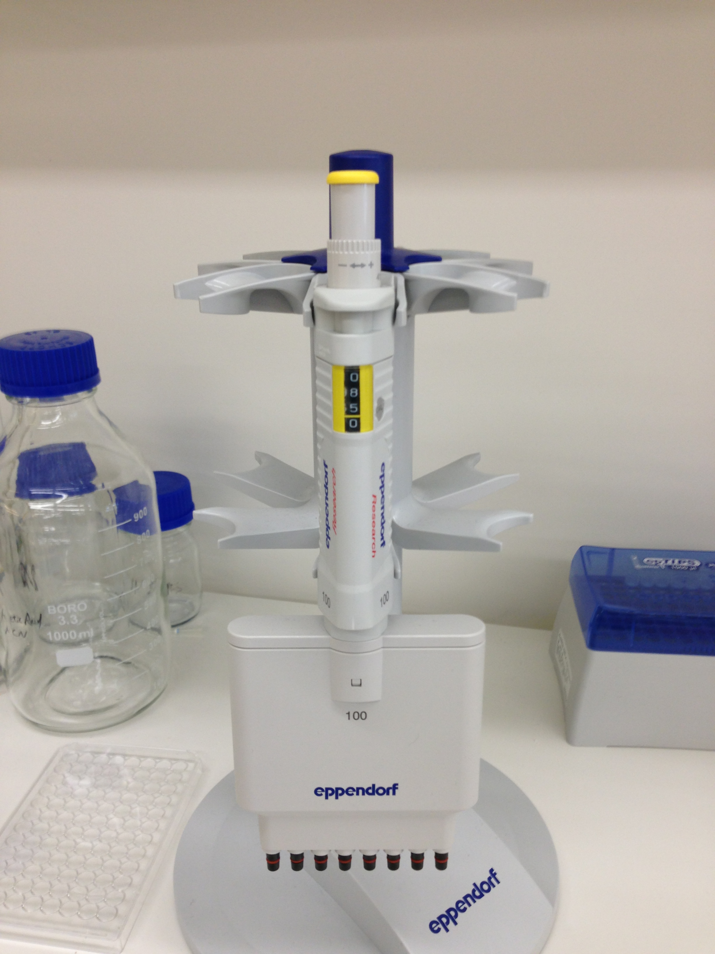 Multipipet for 100 ul